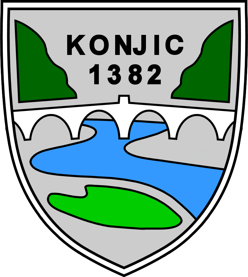 Arms of Konjic, Bosnia